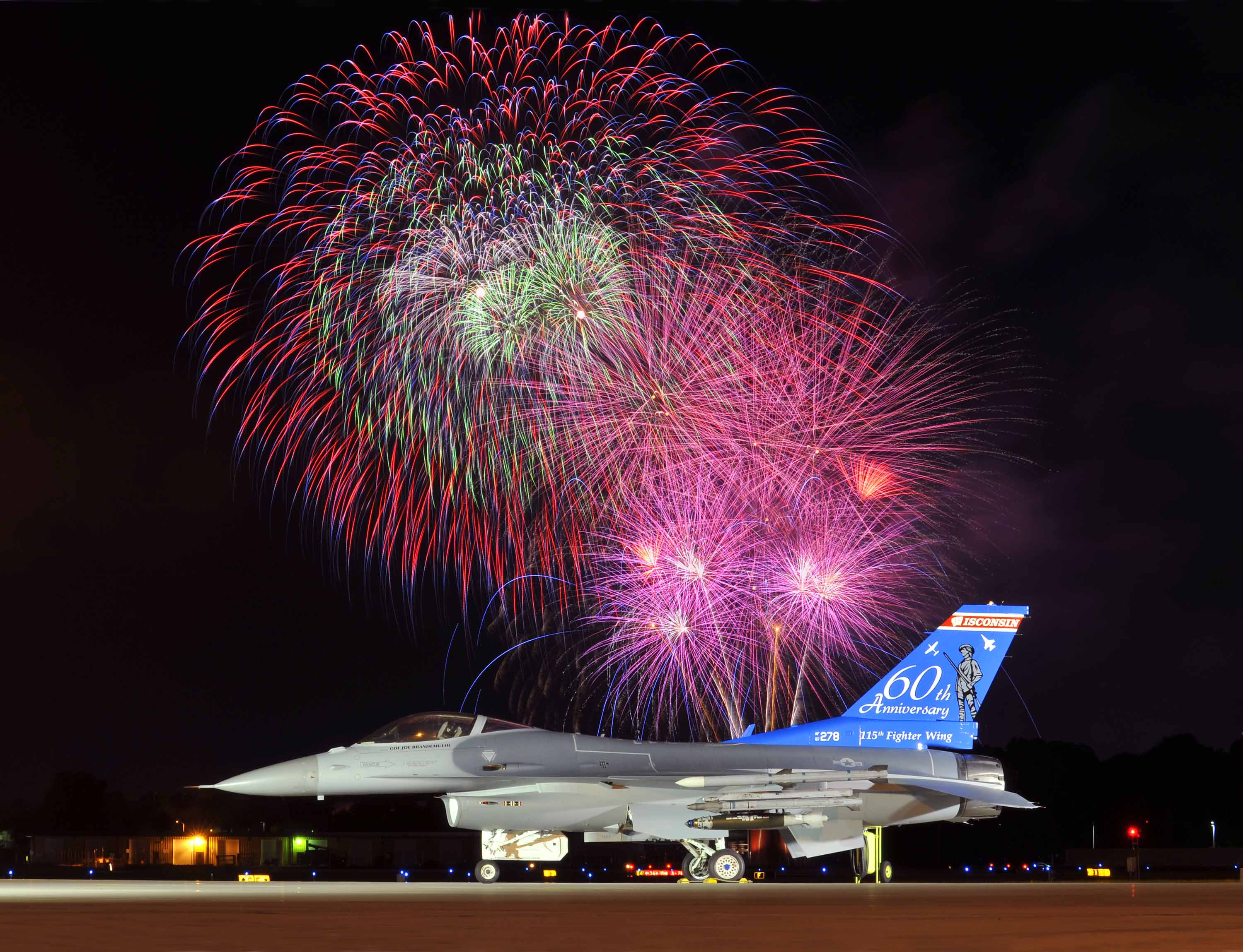 An F-16 Fighting Falcon aircraft from the 115th Fighter Wing, Wisconsin Air National Guard sits on the runway in Madison, Wis., June 28, 2008, during an Independence Day celebration and fireworks display. (DoD photo by Joe Oliva, U.S. Air Force)(Released)